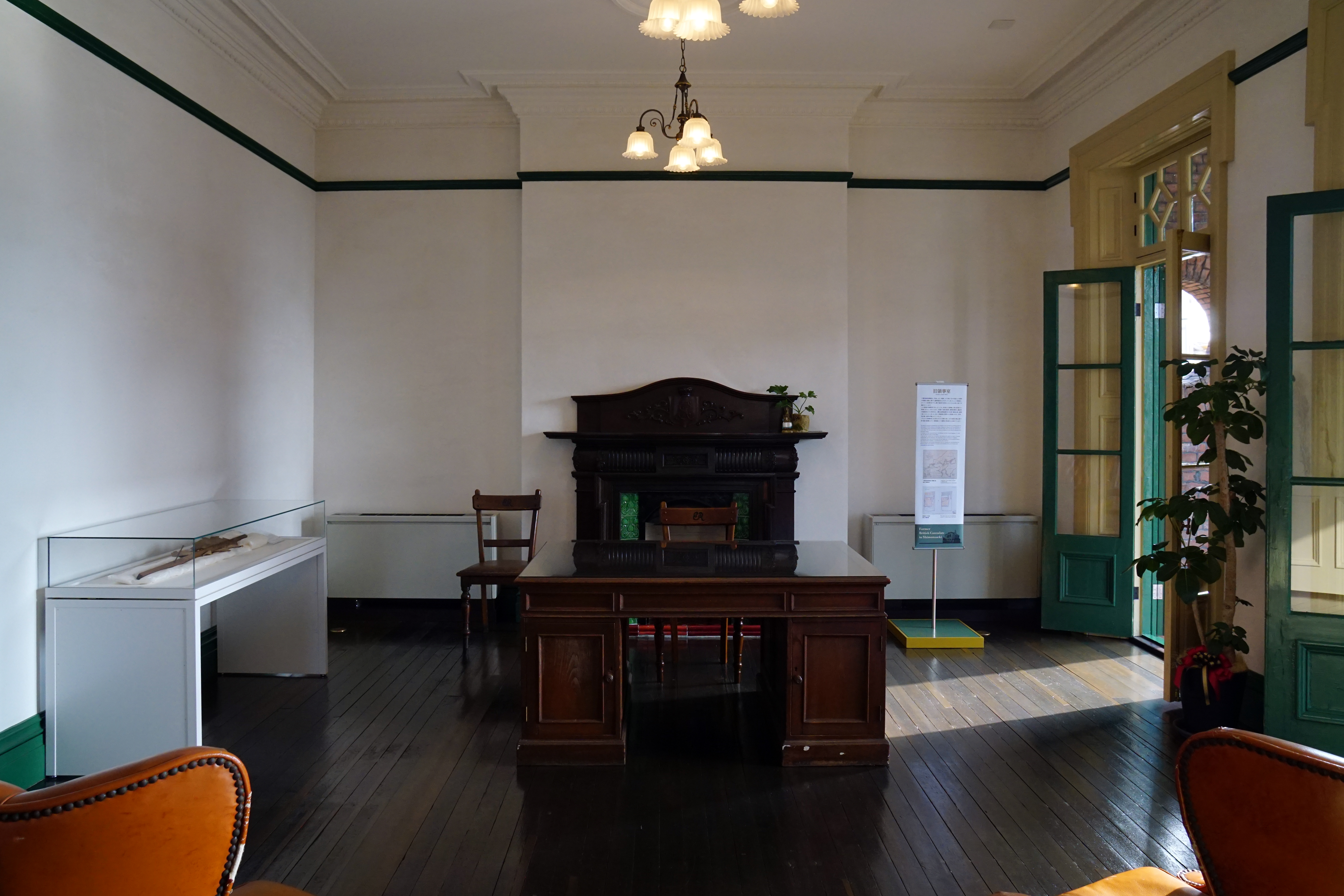 Former_British_Consulate in Shimonoseki, Yamaguchi prefecture, Japan.